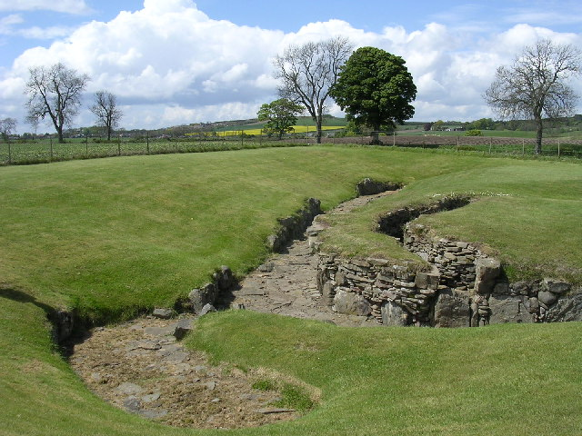 Carlungie Earthhouse - a Histograph?